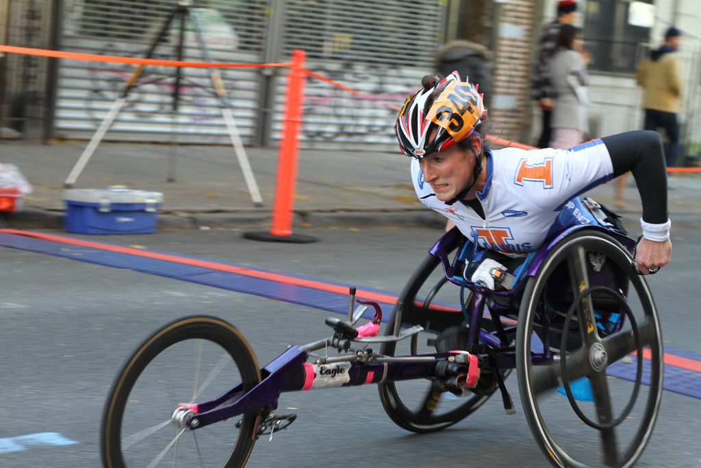 A female wheelchair athlete, Tatyana McFadden, competes in the New York City Marathon 2011.